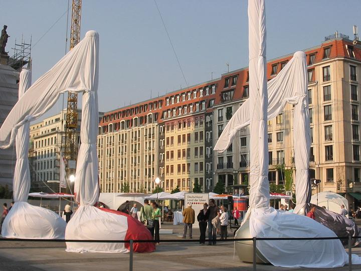 „Masterworks of Music“, fifth sculpture (from six) of the Berliner Walk of Ideas on the occasion of 2006 FIFA World Cup Germany. The notes symbolise Germany as a nation of music with famous composers and interpreters. Unveiling: 5 May 2006 on Gendarmenmarkt - here: two ours before unveiling